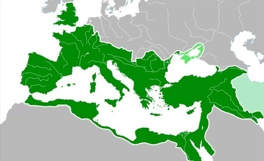 The Roman Empire in 117 AD after the conquests of emperor Trajan. The light green territory to the north is the Bosporan Kingdom, a Roman vassal. The turquoise territory to the east is the Parthian Empire.